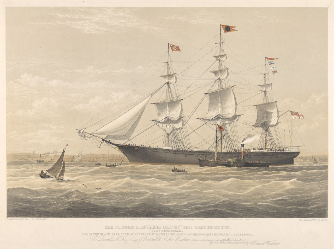 The Clipper Ship James Baines... one of the Black Ball Line of Australian Packets belonging to Messrs James Baines & Co, Liverpool Print The Clipper Ship James Baines... one of the Black Ball Line of Australian Packets belonging to Messrs James Baines & Co, Liverpool